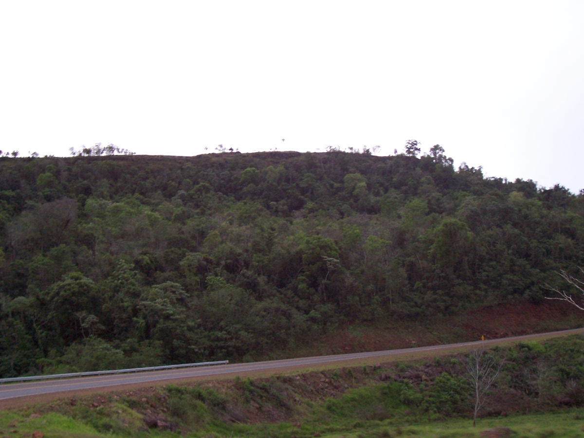 The Coastal route N° 2 "John Paul II", in the province of Misiones, Argentina. To the bottom, the hill or rock of Mbororé, where the Mbororé's battle got rid 300 years ago.